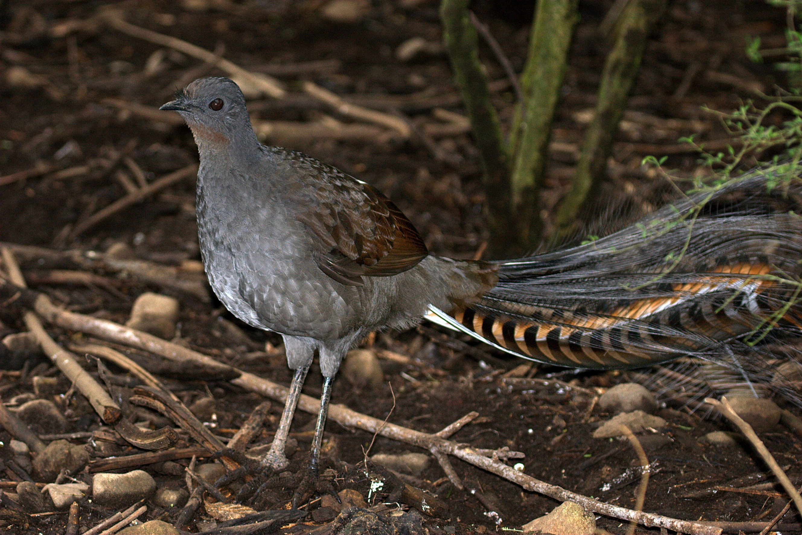 Superb Lyrebird (Menura novaehollandiae), Mt Buffalo, Victoria